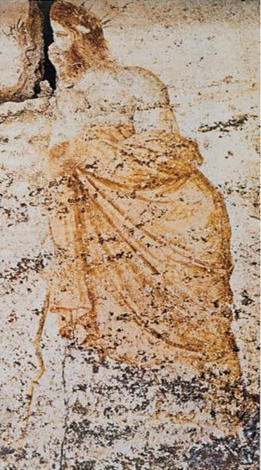 Tomb of the Judgement Radamanthys